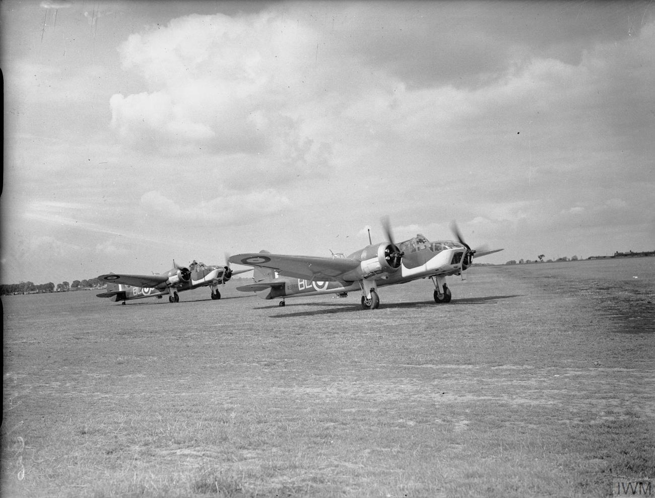 IWM caption : Two Bristol Blenheim Mark IVs of No. 40 Squadron RAF, running up their engines at Wyton, Huntingdonshire.